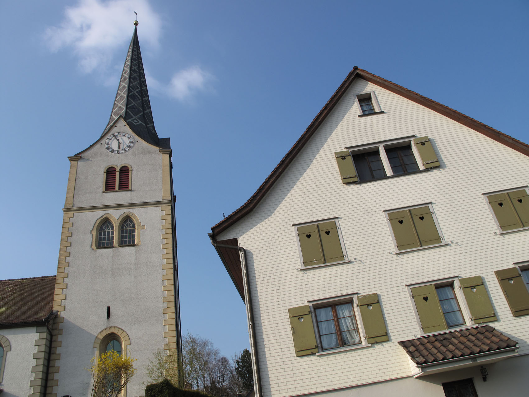 Reformed church of Tägerwilen, Switzerland.